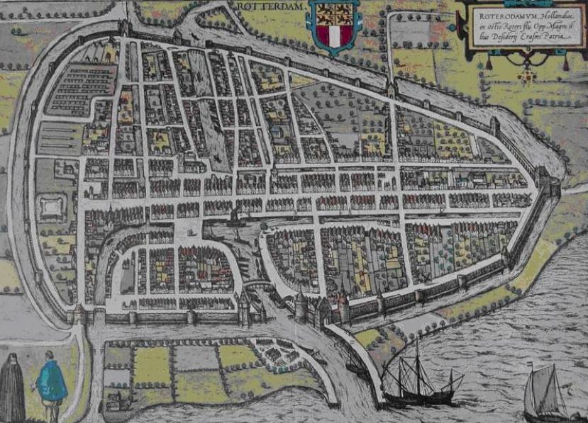 Map of Rotterdam, from the fourth part of the Stedenboek by van Braun en Hogenberg